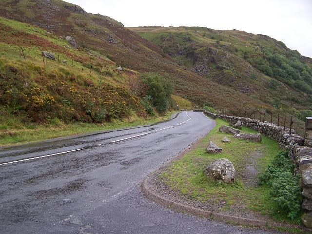 The A498 descends Nant Gwynant pass steeply.